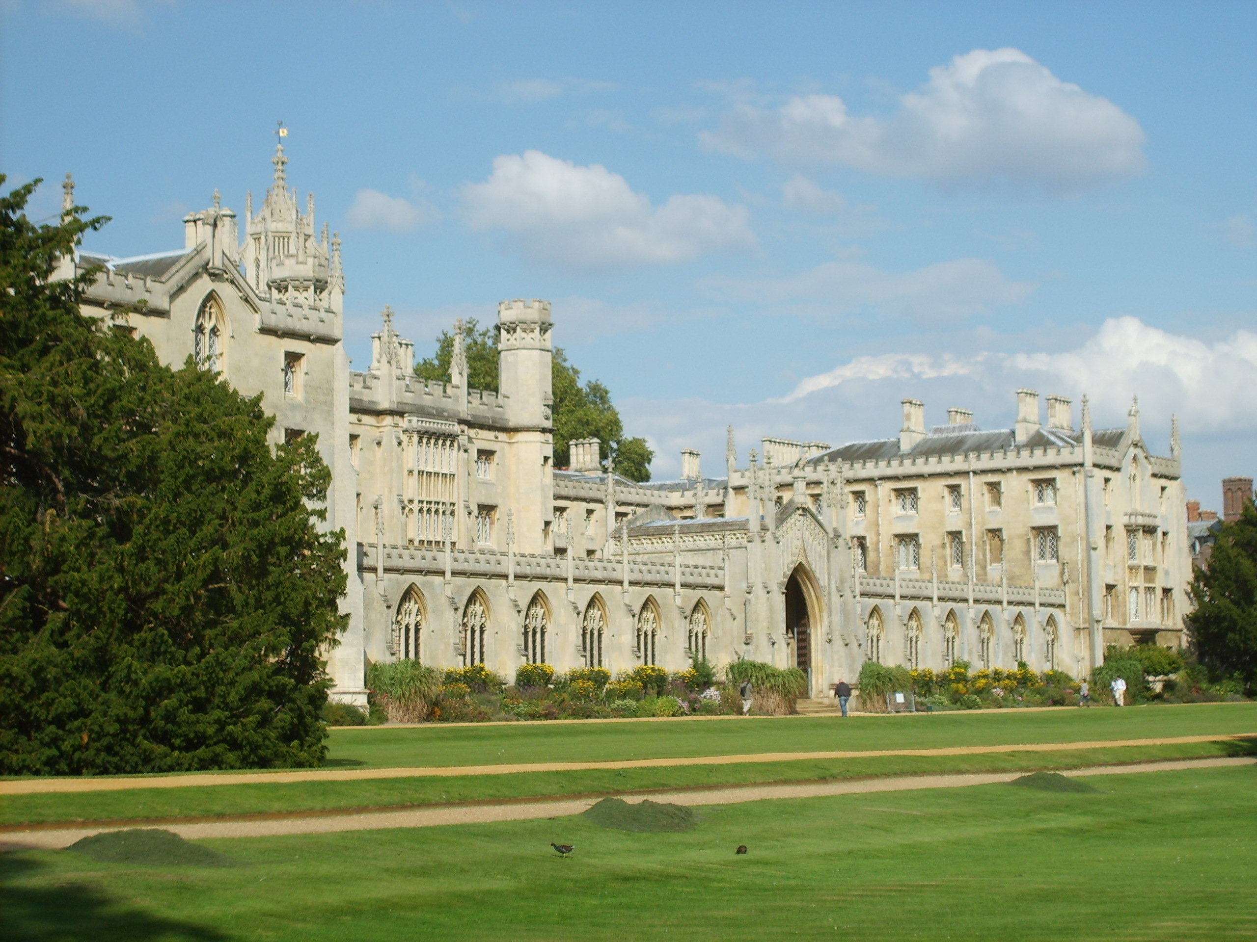 Image of St. John's College Cambridge